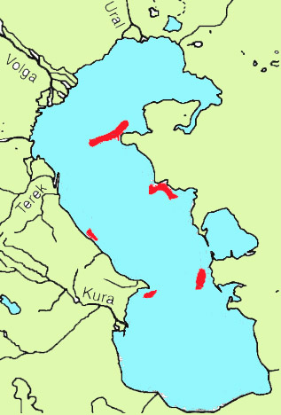 The range of the spiny pugolovka (Benthophilus spinosus)